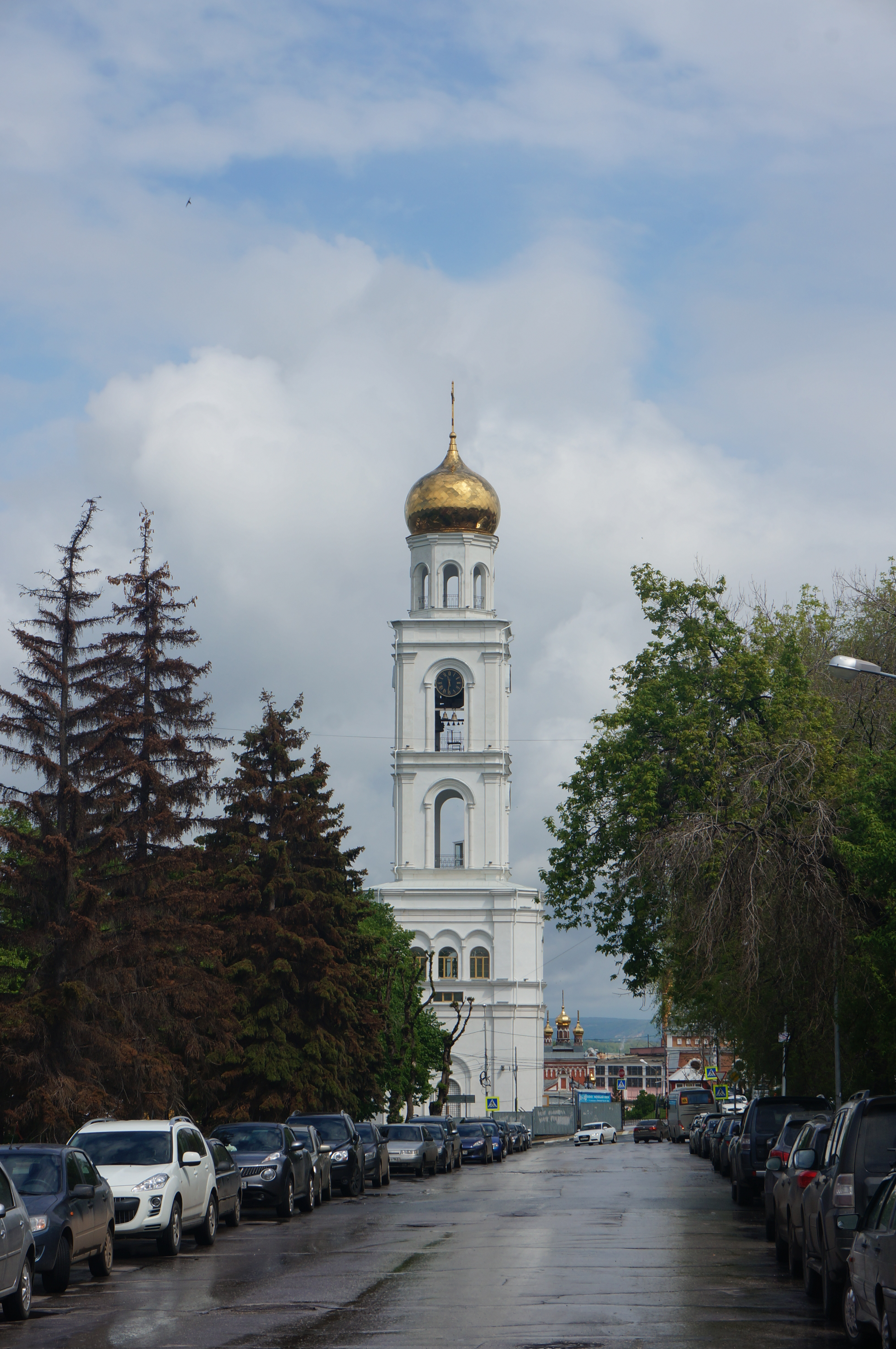 Улица Фрунзе, Самара. Вид на Иверский монастырь